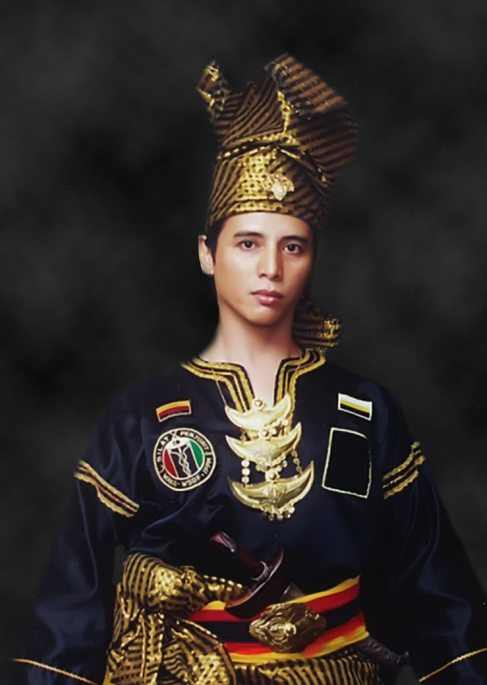 IPPM Grand Master Megat Ainuddin al Asyuro